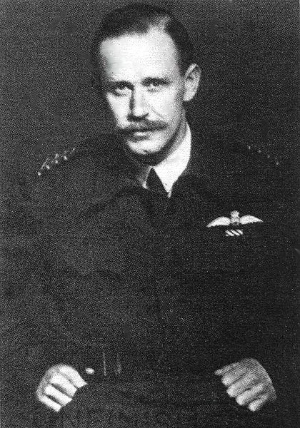 Group Captain John Lerew